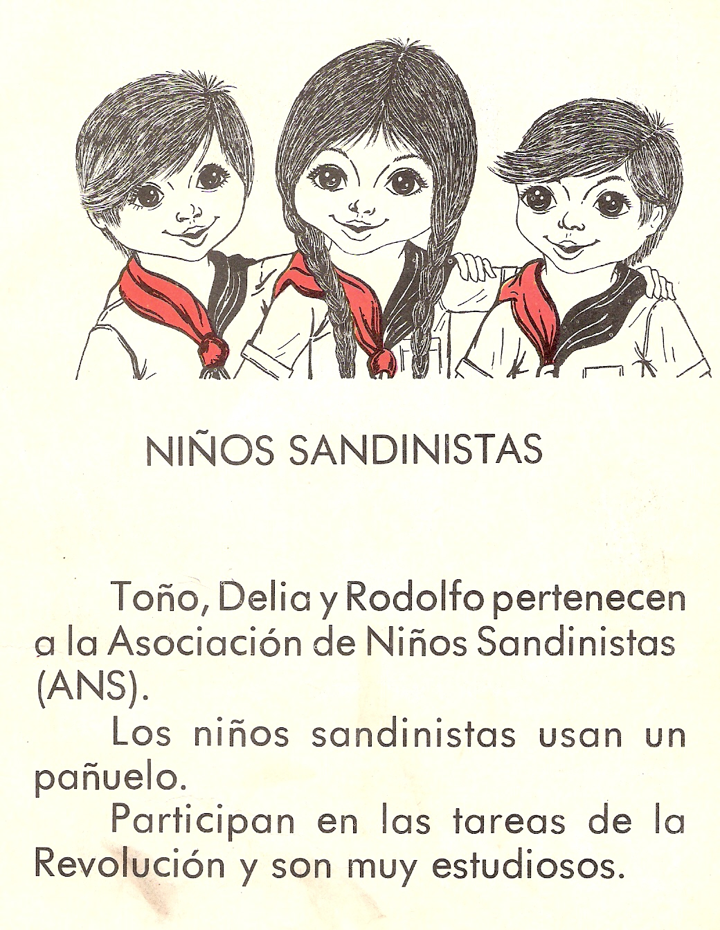 Page 73 of the reading book the Carlitos of first degree, Ministry of Education, Managua Nicaragua 1985. Scanned from a book published by the ministry of education of the republic of Nicaragua, For official and public use. Majority of books was retired of official use in 1990 and later destroyed. There are some books, and samples left of the collection for historical purposes. The text translates, "Sandinista Children: Toño, Delia and Rodolfo belong to the Association of Sandinista Children (ANS). The Sandinista children use a neckerchief. They participate in the works of the Revolution and are very studious."